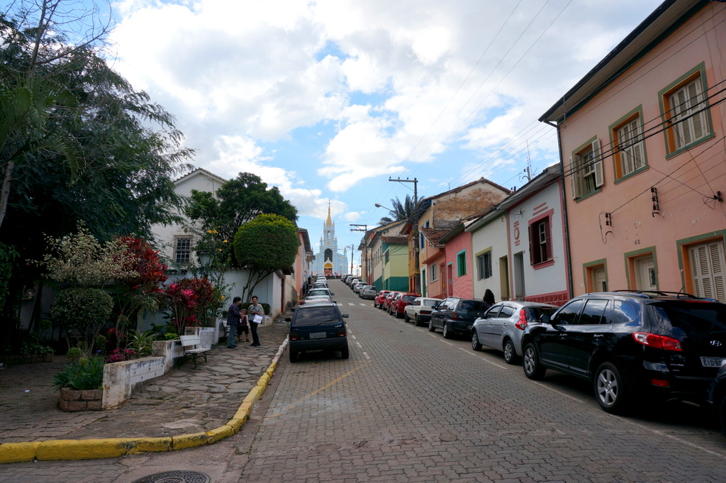 R. Monsenhor Ignácio Giolia, São Luiz do Paraitinga - SP, Brazil